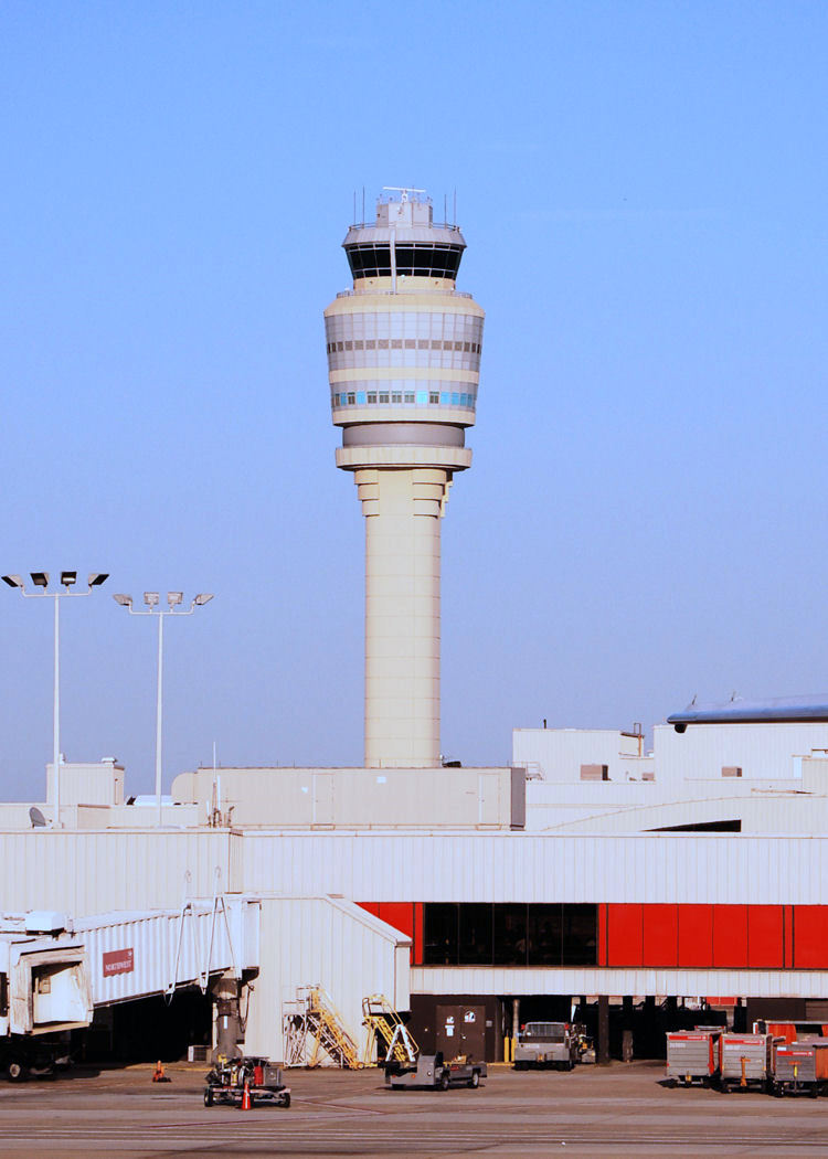 Control tower for Atlanta's Hartsfield-Jackson International Airport